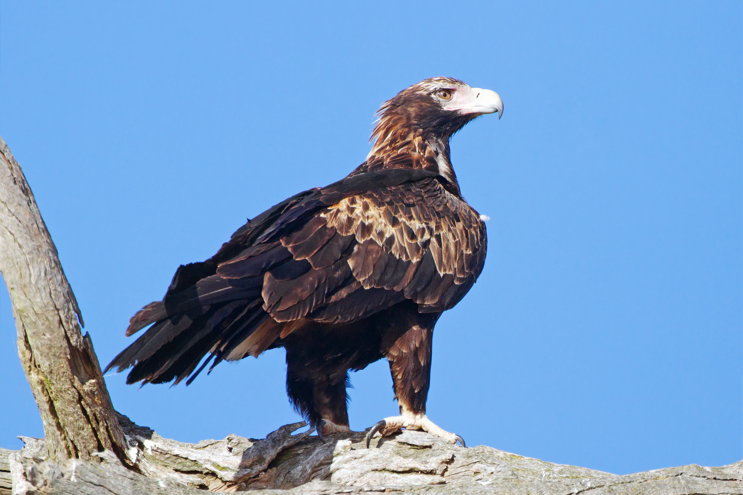 Wedge-tailed Eagle (Aquila audax), Captain's Flat, New South Wales, Australia